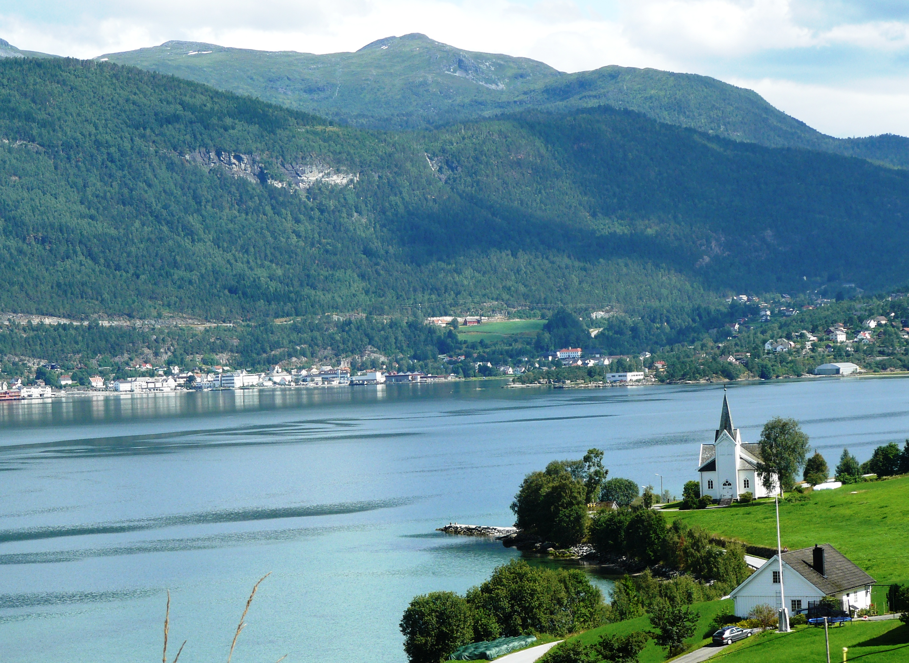 Sandane in Gloppen, Norway, with Gimmestad Church